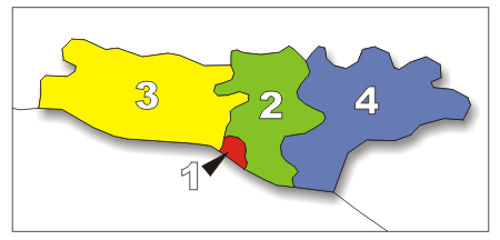 The scheme of administrative division of Sochi, Russia. 1 = Tsentralny 2 = Khostinsky 3 = Lazarevsky 4 = Adlersky